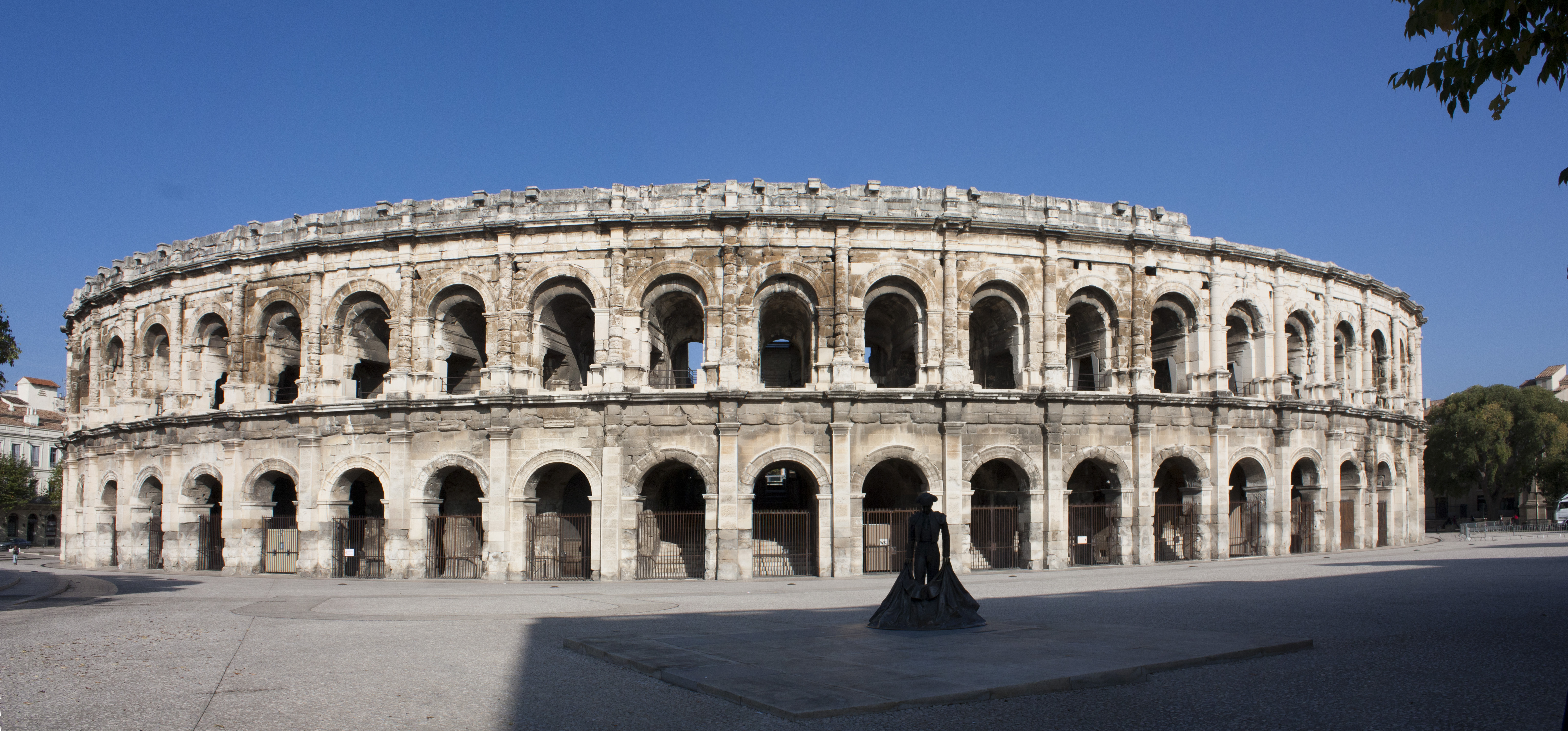 The Arenas.